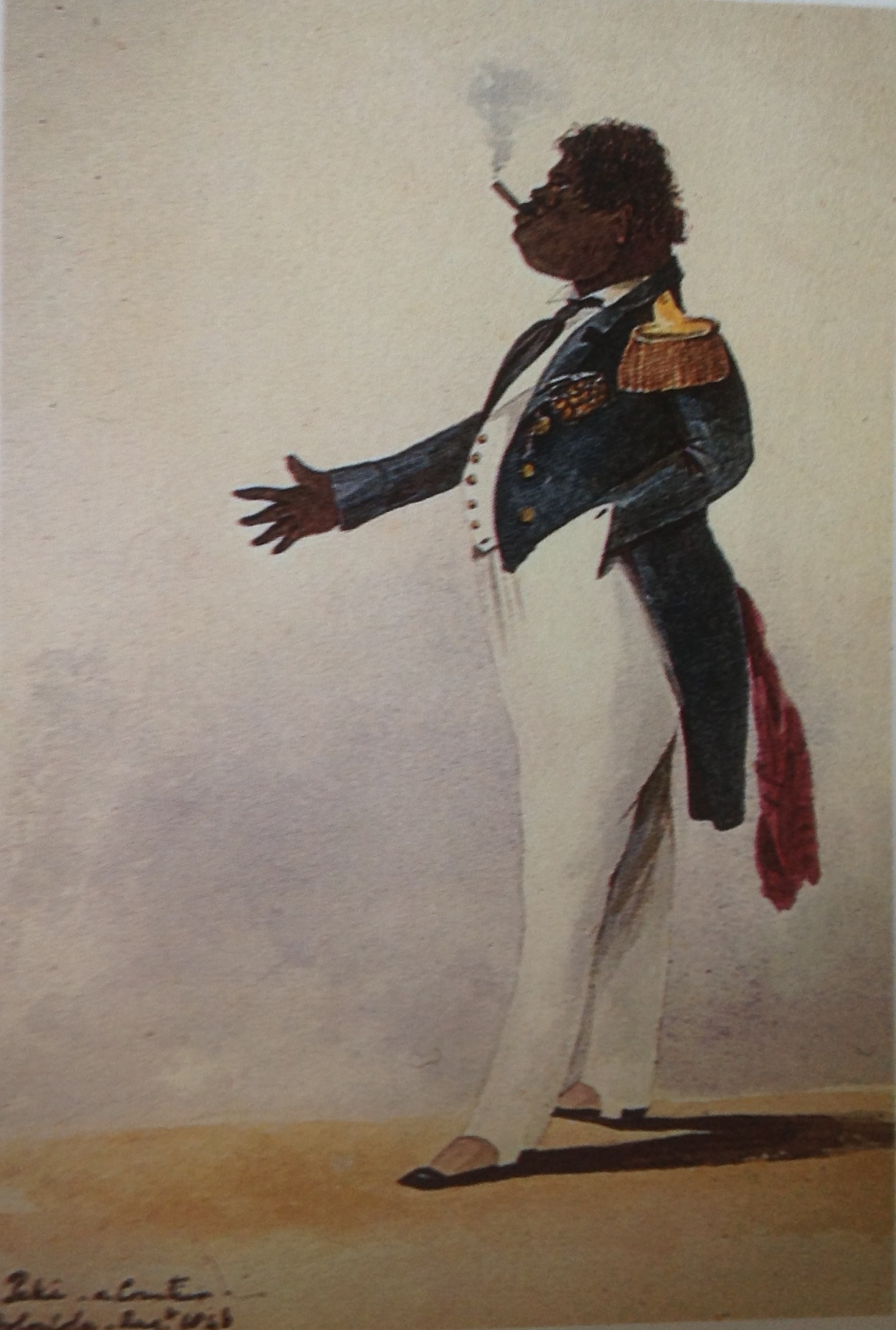 Paki, a courtier, Honolulu, August 1846. Painting by Henry Byam Martin.